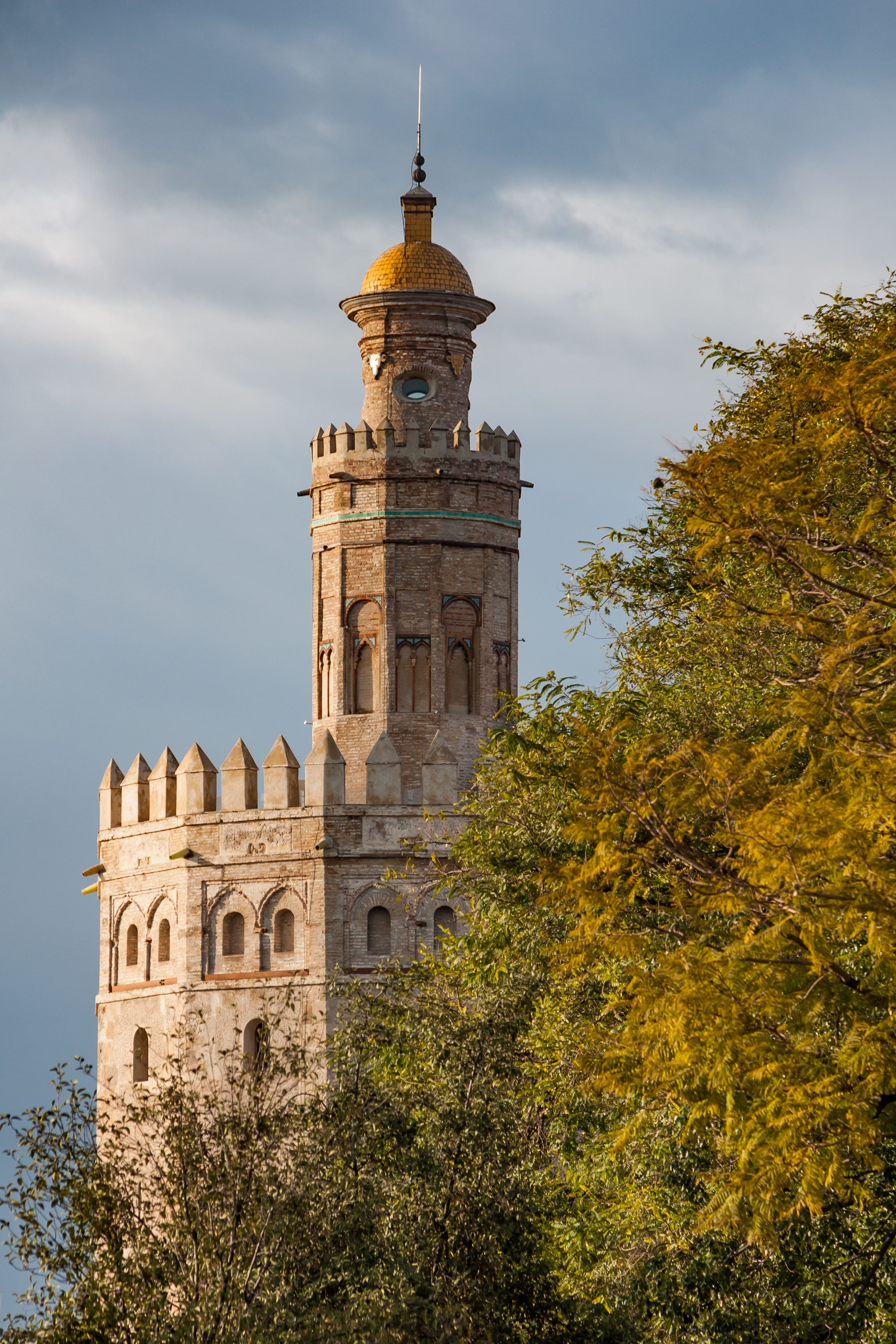 Sevilla, Spain: El Torre del Oro (The Golden Tower)